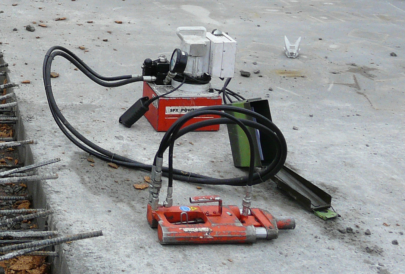 Hydraulic jack for tensioning cables Licensing Tập tin:Post-Tensioning-Cables-13.jpg